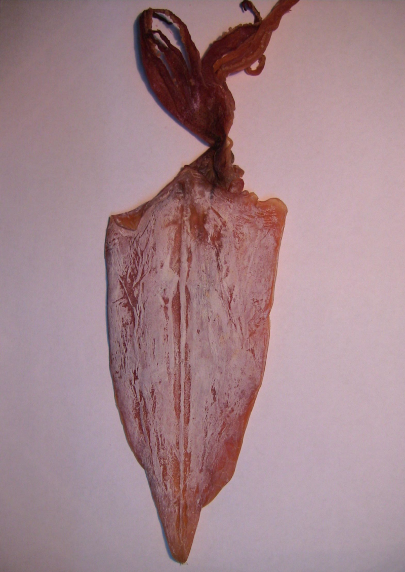 Dried squid